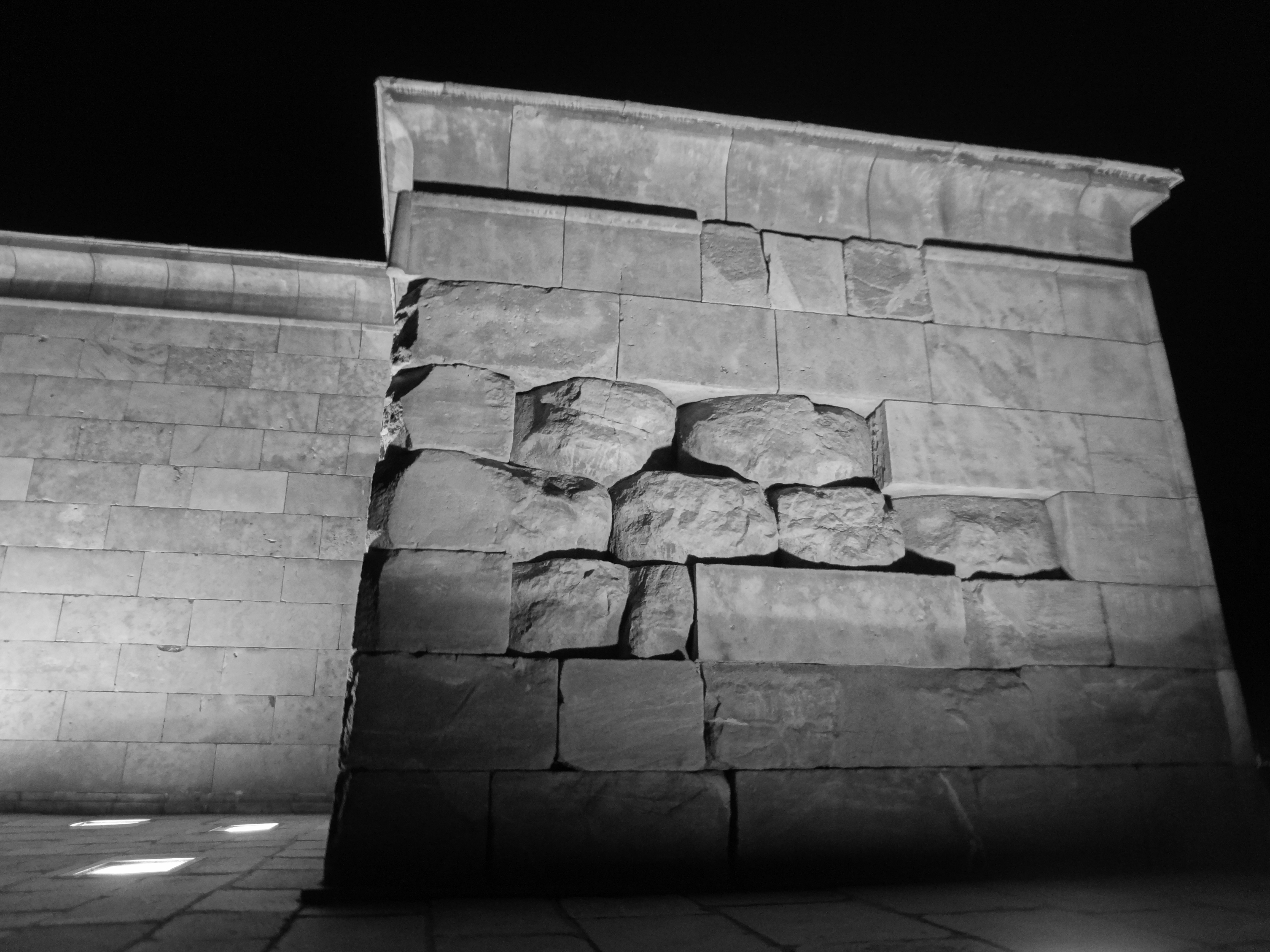 Temple of Debod in Madrid, Spain ' Photographed at Night in black and white